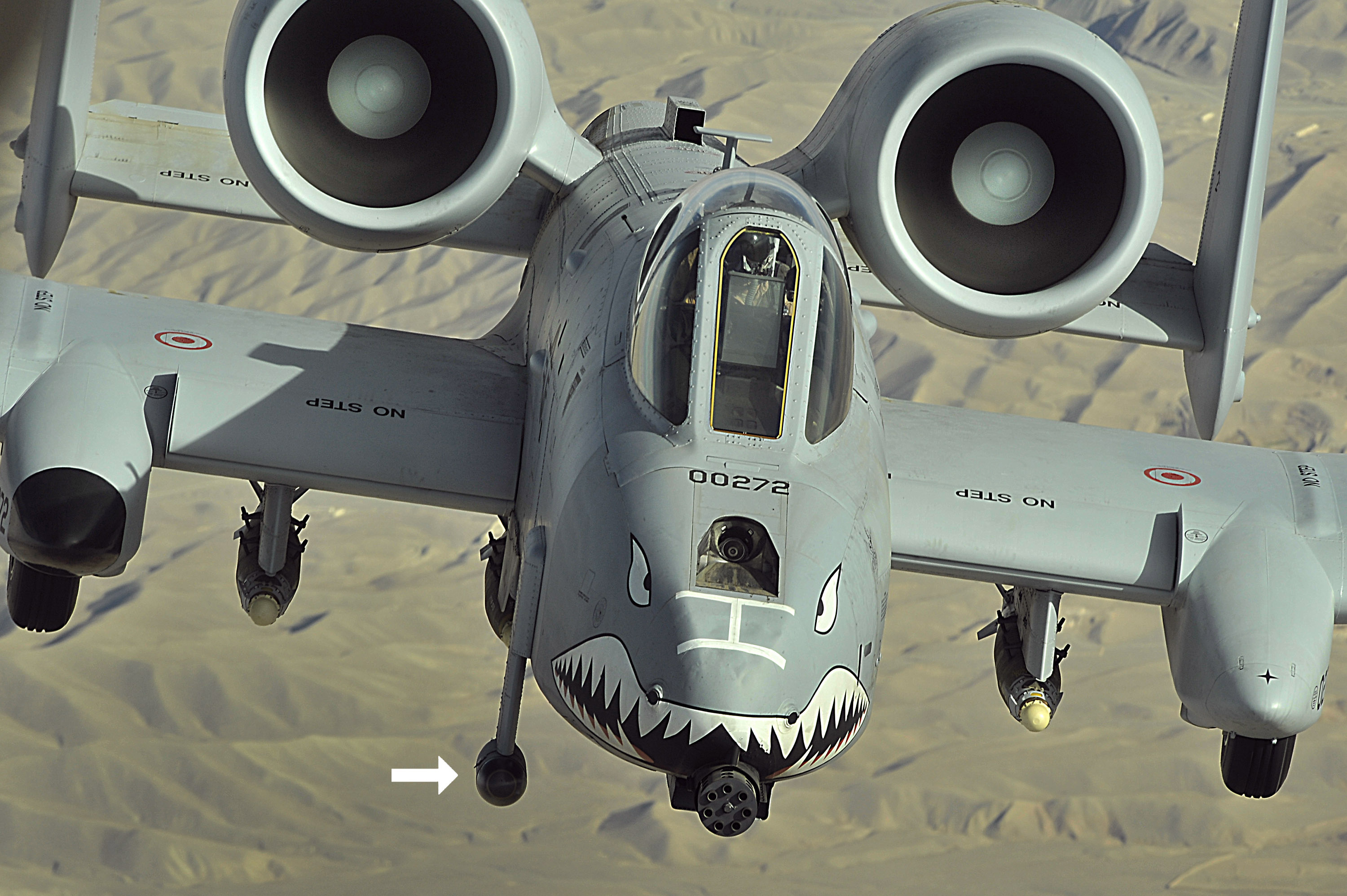 An A-10 Thunderbolt II flies a close-air-support mission over Afghanistan on Oct. 7. The A-10 has excellent maneuverability at low air speeds and altitude, and are highly accurate weapons-delivery platforms. The first production A-10A was delivered to Davis-Monthan Air Force Base, Ariz., in October 1975. It was designed specially for the close-air-support mission and had the ability to combine large military loads, long loiter and wide combat radius, which proved to be vital assets to the United States and its allies during Operation Desert Storm and Operation Noble Anvil. (U.S. Air Force photo/Staff Sgt. Aaron Allmon)